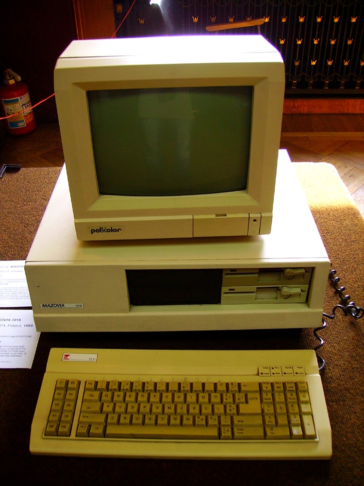 Mazovia 1016, MERA-REFA, Poland, 1985, Ram 640 KB, ROM 48 KB, processor Intel 808 or soviet equivalent K1810 WM Memory capacity of floppy disk 360 KB